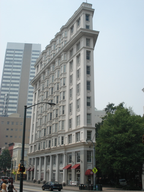 The Flatiron Building in Atlanta, Georgia.